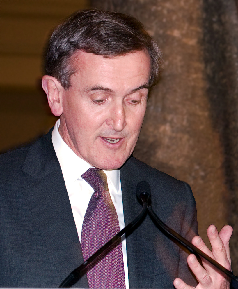 Neil MacGregor, director of the British Museum.